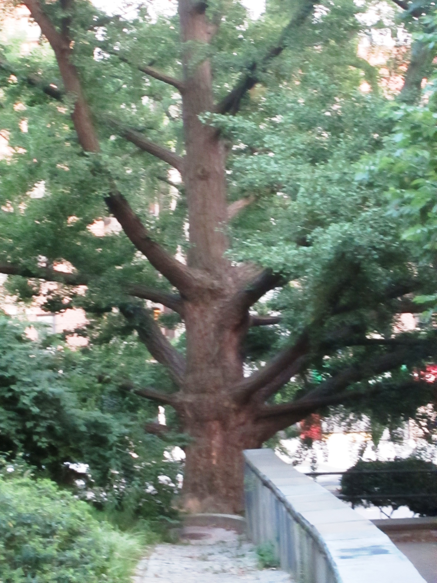 A ginkgo biloba tree in Isham Park. The Park was assembled from land given to the city by the Isham family from their estate and other purchases by the city in the 16 years between 1911 and 1927. The extent of the current park matches the original extent of the estate. (Source: Parks Dept: Isham Park Highlights